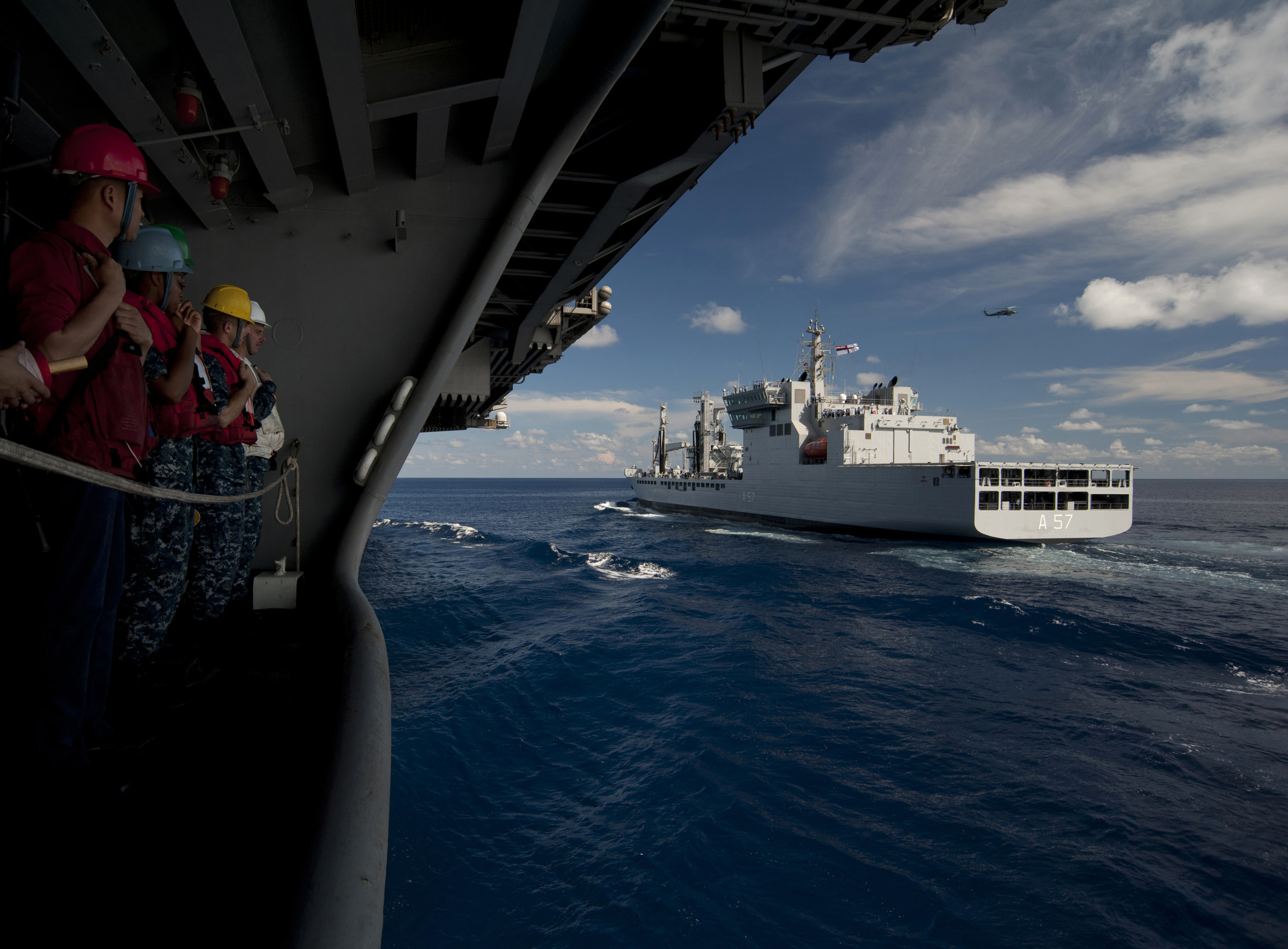 INDIAN OCEAN (April 13, 2012) Sailors aboard the Nimitz-class aircraft carrier USS Carl Vinson (CVN 70) stand by as the ship goes alongside the Indian navy fleet oiler INS Shakti (A57) during a refueling at sea exercise. Carl Vinson and Carrier Air Wing (CVW) 17 are deployed participating in the Malabar Exercise with ships and aircraft from the Indian navy. (U.S. Navy photo by Mass Communication Specialist 2nd Class James R. Evans/Released) 120413-N-DR144-319